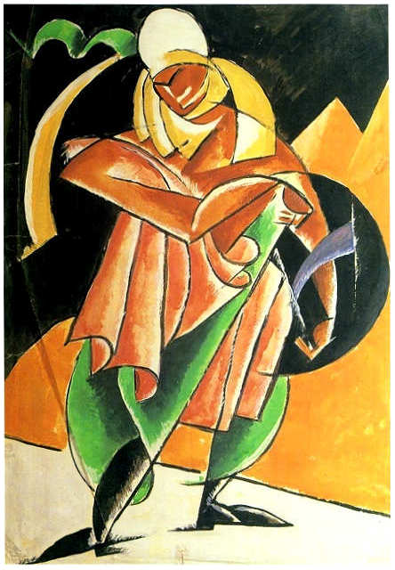 Lubov Sergeyevna POPOVA Woman's Costume for "Zhretz Tarkvinny" after the play by S.Polivanov. Theatre "Atheist", Moscow. 1922. Watercolor on paper, 57.8x40.7 cm. Nikita & Nina Lobanov-Rostovsky, London.